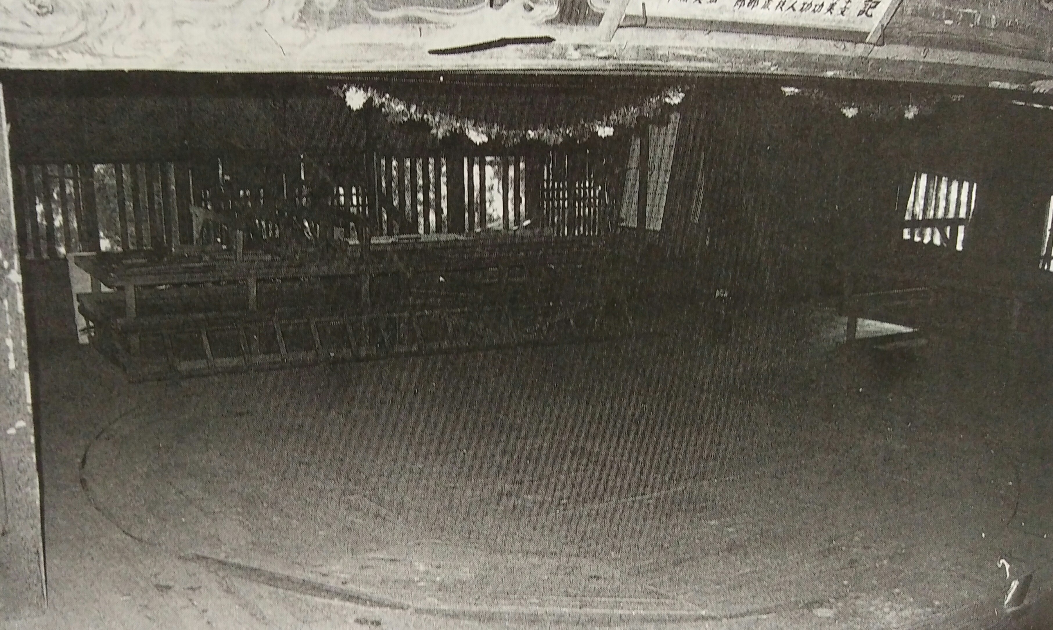 Traditional theater of Japan, revolving stage of Kakamigahara Kagami.